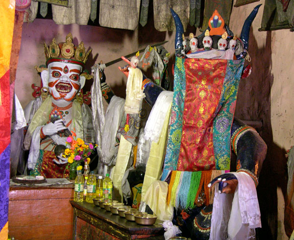 Diskit gompa, Ladakh, India